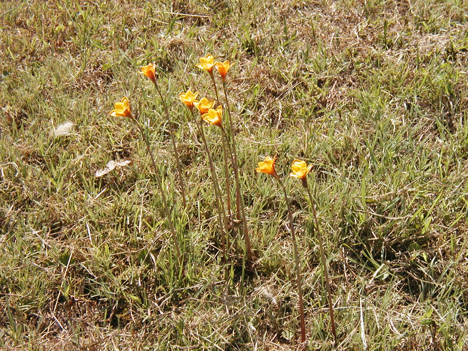 Habranthus tubispathus photographed in Denton, Texas, USA.